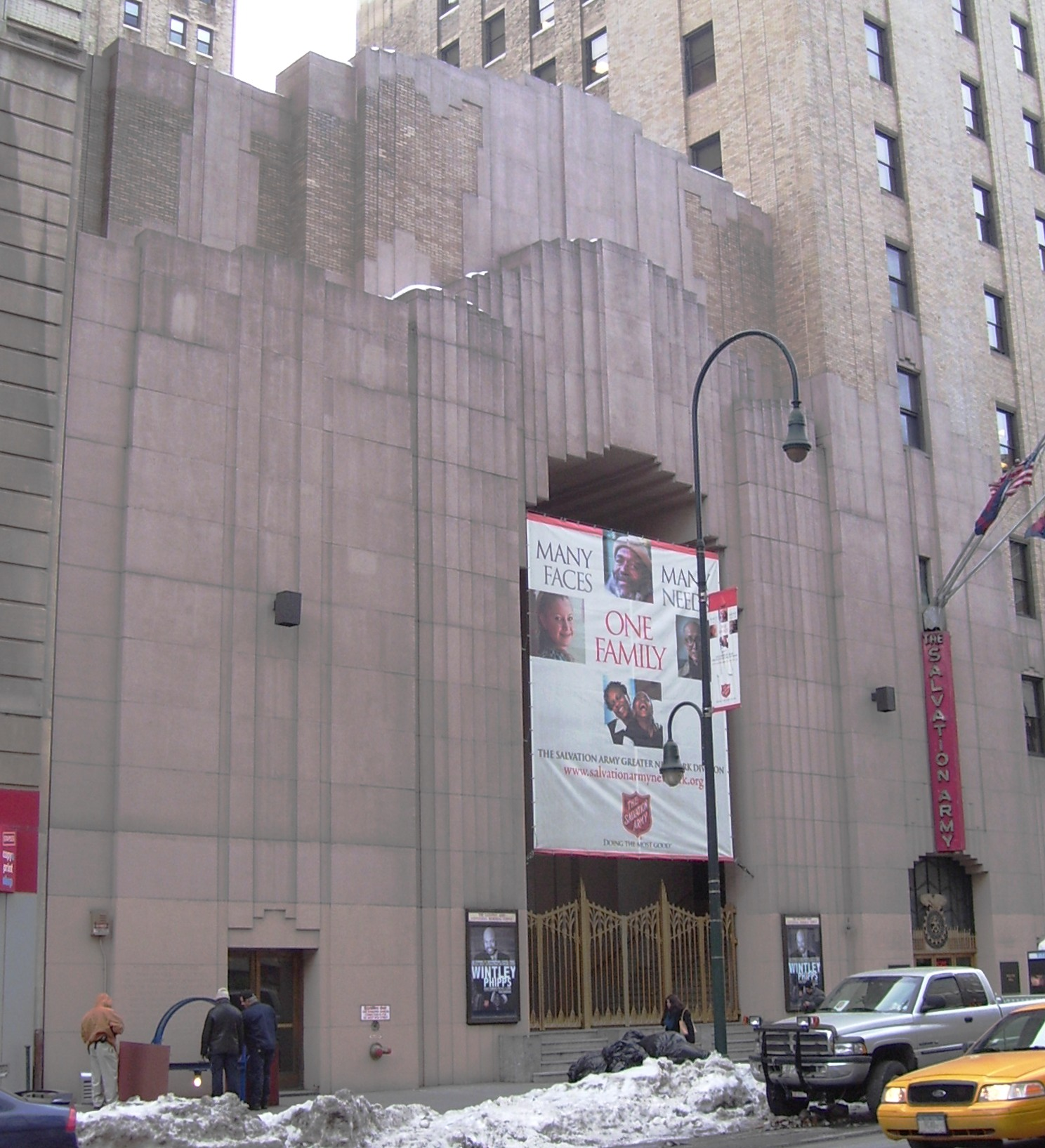 The Salvation Army Centennial Memorial Temple at 120 West 14th Street between the Avenue of the Americas (Sixth Avenue) and Seventh Avenue in Manhattan, New York City. Built in 1930 and designed by Ralph Walker of Vorhees, Gmelin & Walker in "Ziggurat Moderne" style. (Sources: AIA Guide to NYC (4th ed.) and From Abyssinian to Zion (2004))